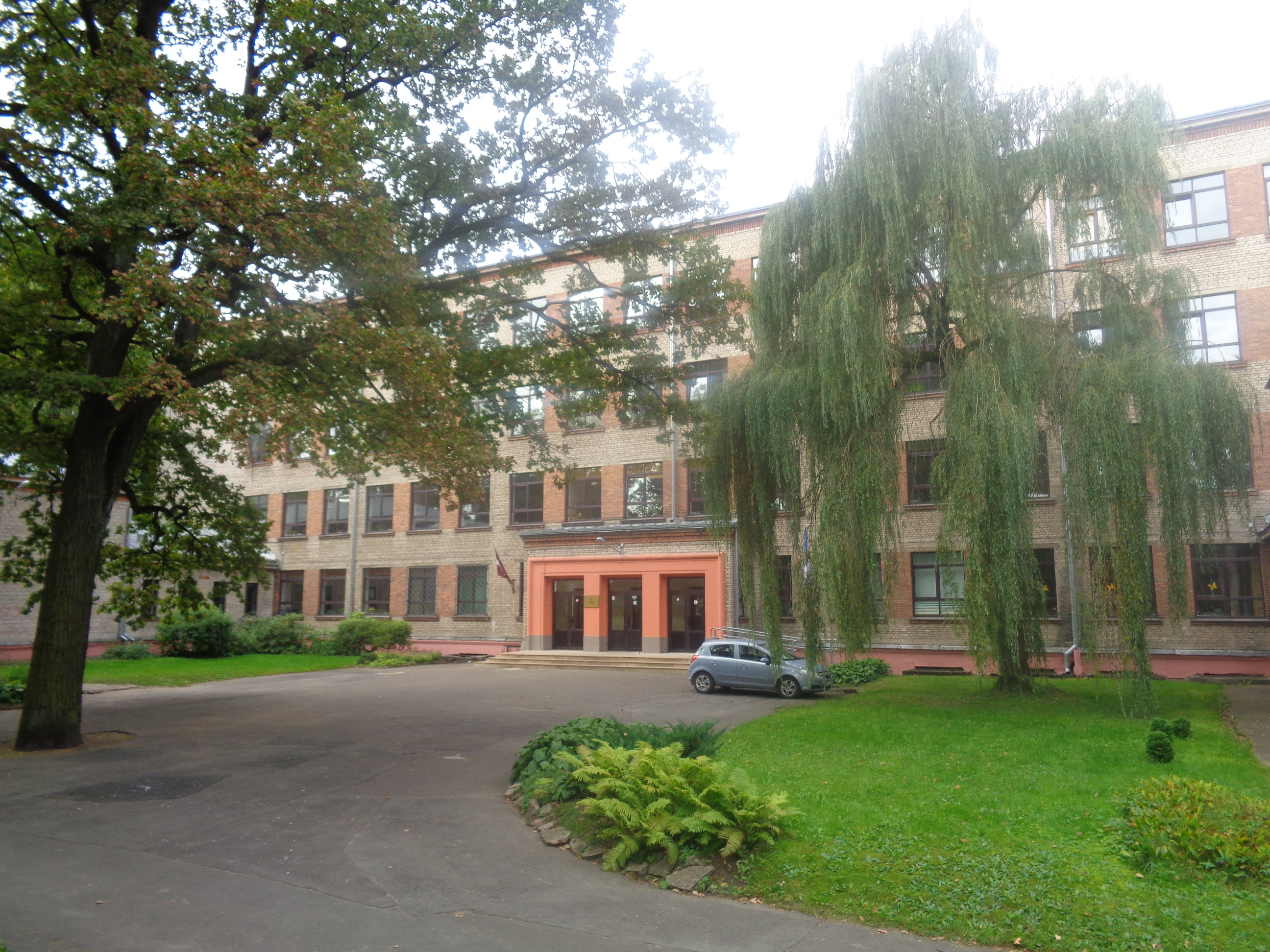 Riga Secondary school No.41